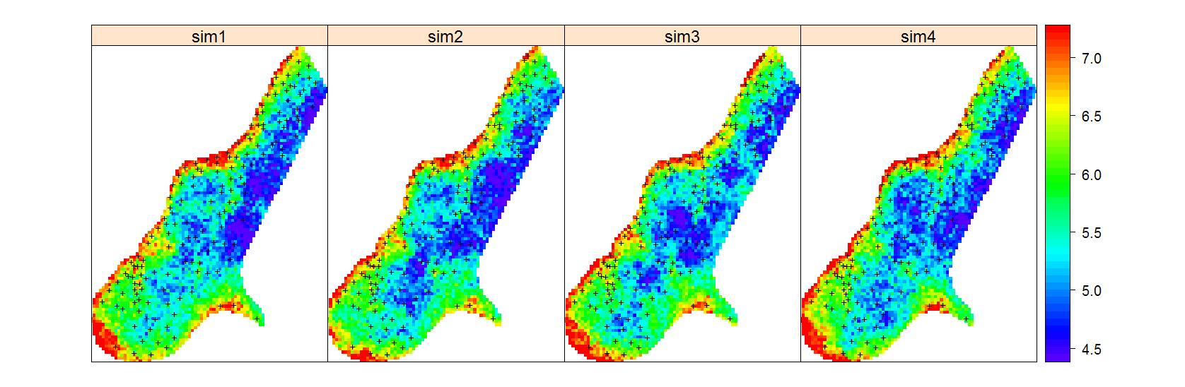 Four simulations of zinc concentrations (log-scale) for the Muese data set